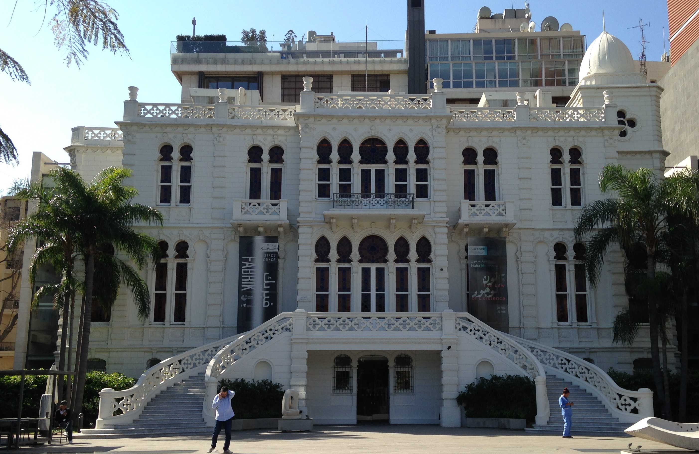 The Sursock Museum in Beirut in March 2017